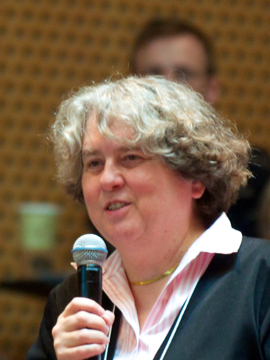 Janet Pierrehumbert speaking at the 50th Anniversary of the Graduate Program in Linguistics at MIT, December 2011. Photograph by Michael Yoshitaka Erlewine